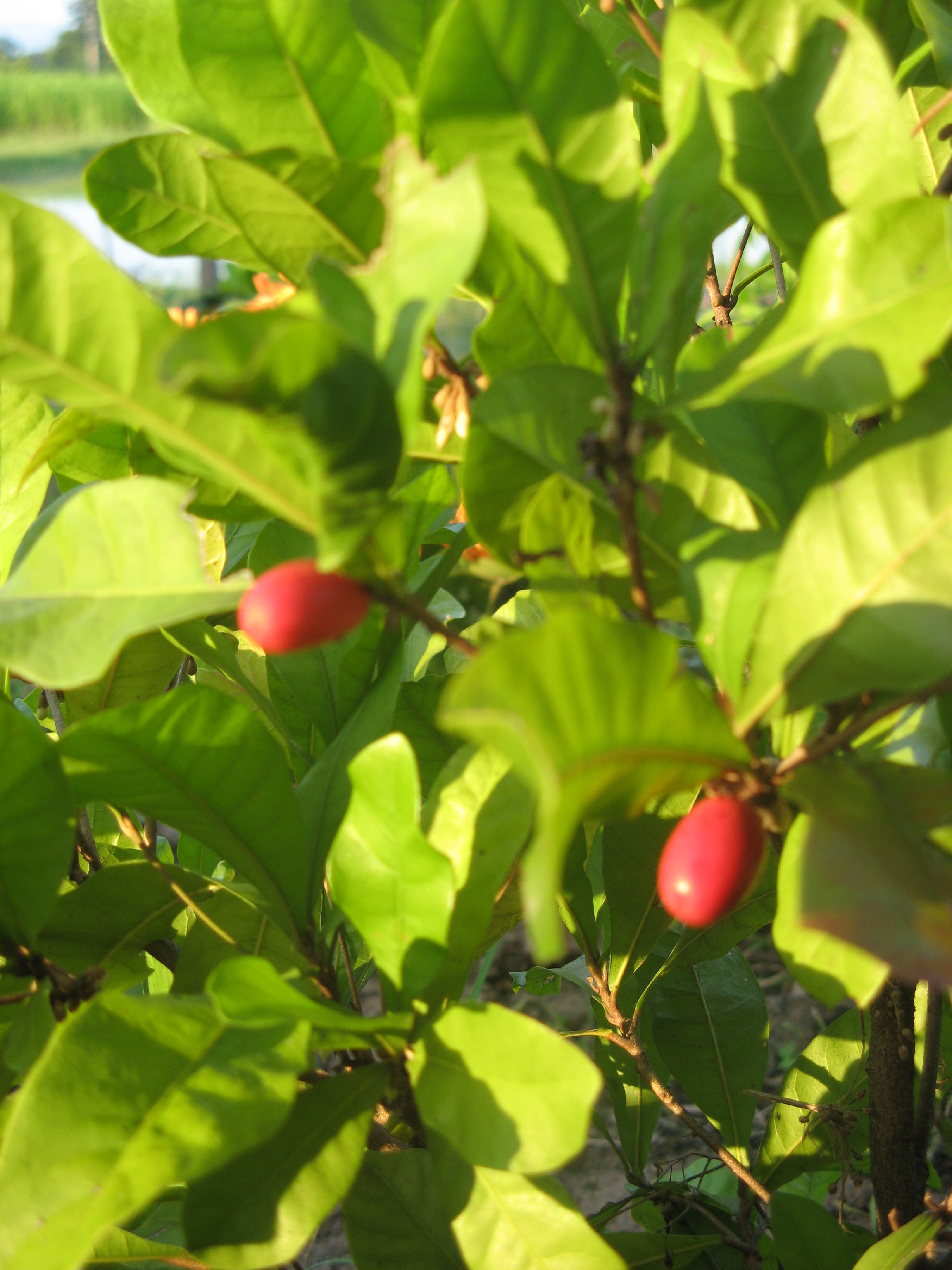 Synsepalum dulcificum (miracle berry)